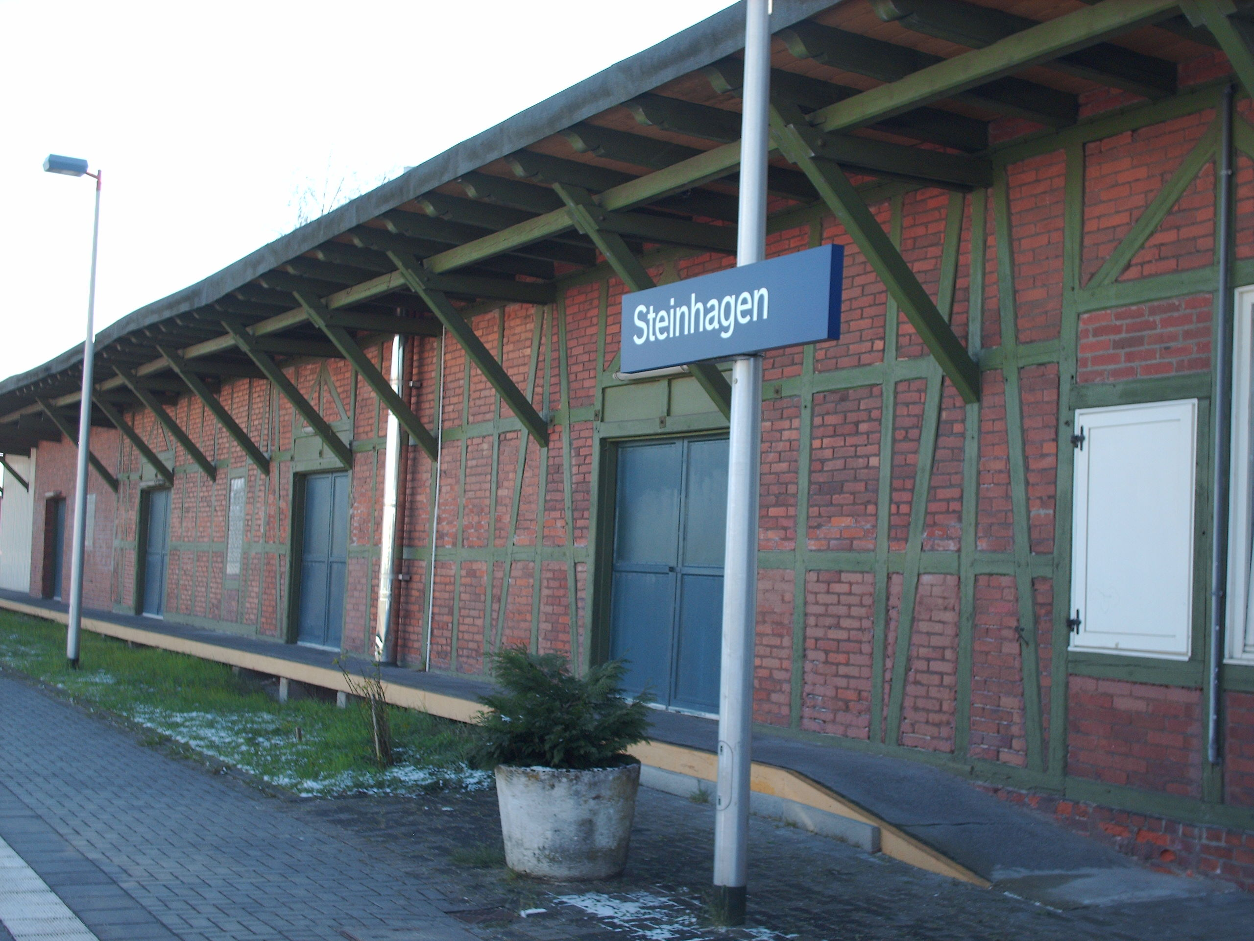 Steinhagen (Westf) station, Steinhagen, Germany check usage